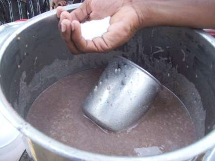 Salt is added to the fermented koozh after converting kali (palm sized ball made after cooking koozh)